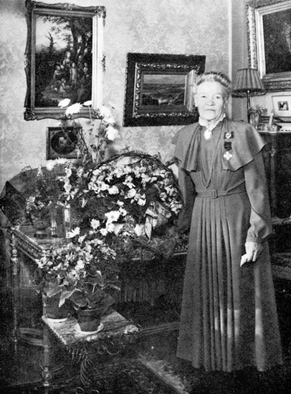 Photograph of the Finnish Patron Ida Salin (1865–1952).